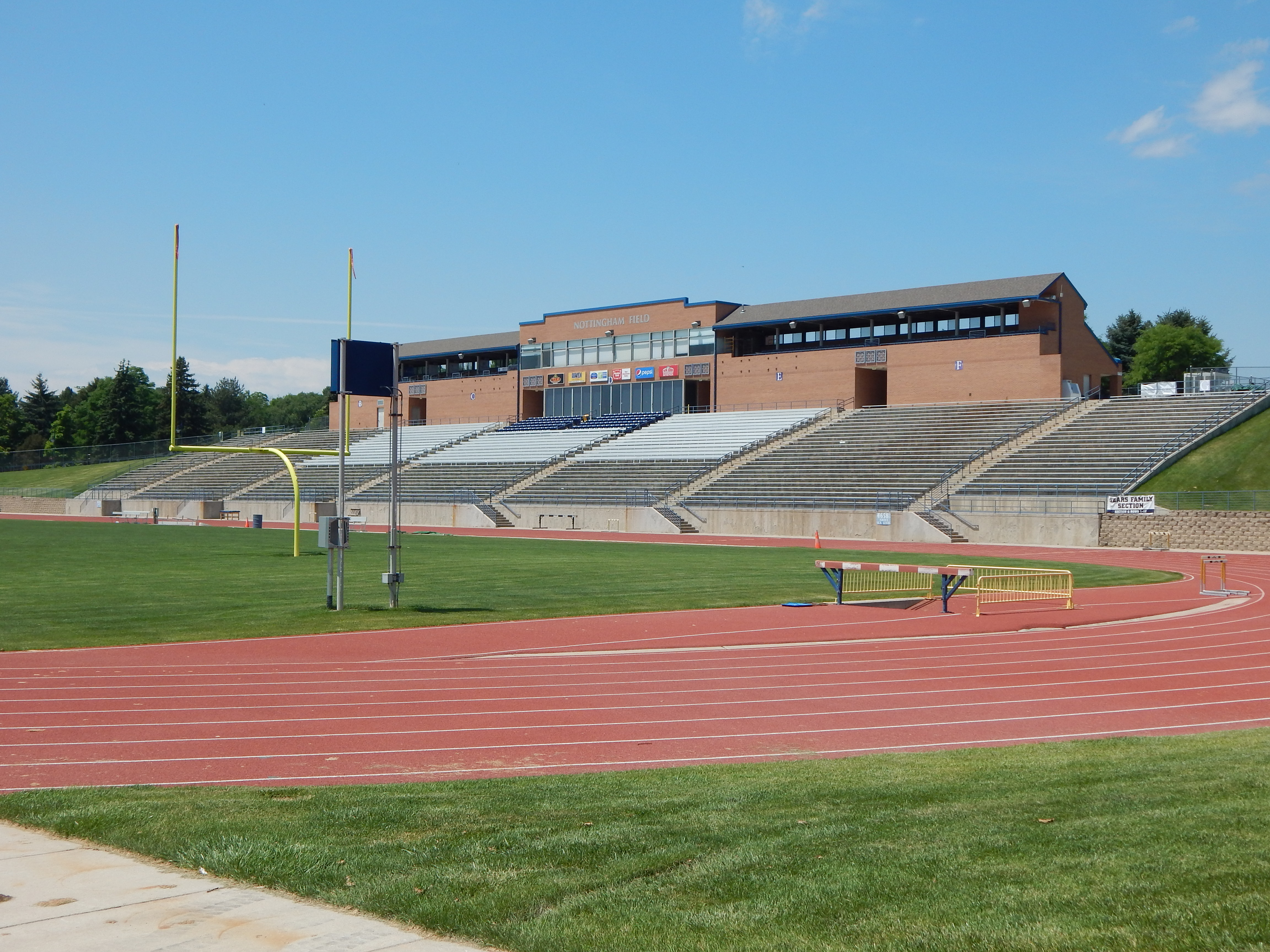 Nottingham Field main stands